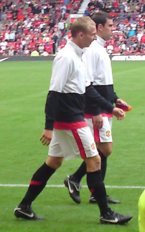 Ritchie De Laet, Belgian footballer born 1988, at Manchester United vs Birmingham City at Old Trafford, Manchester, on 16 August 2009